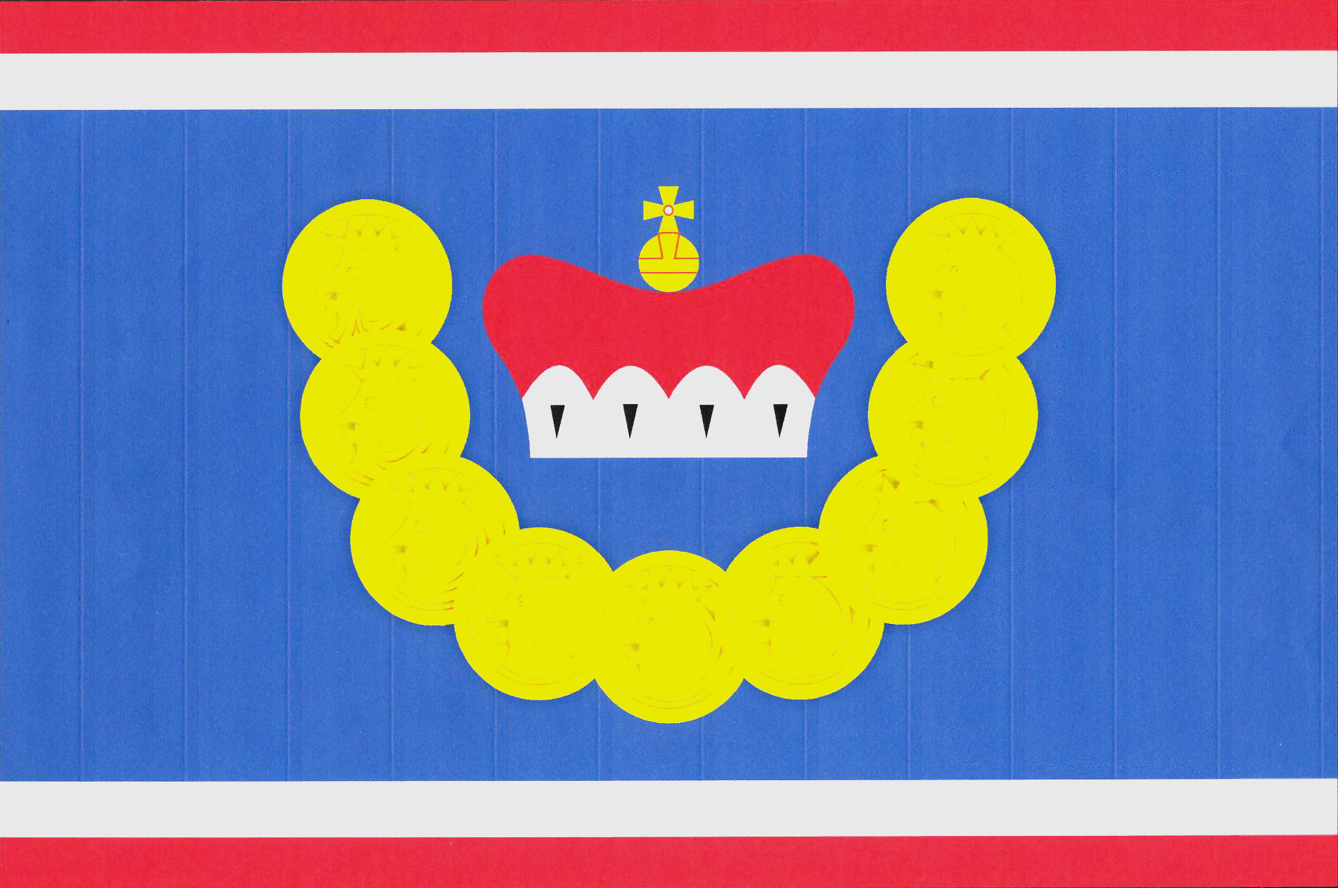 Municipal flag of Cetoraz village, Pelhřimov District, Czech Republic.